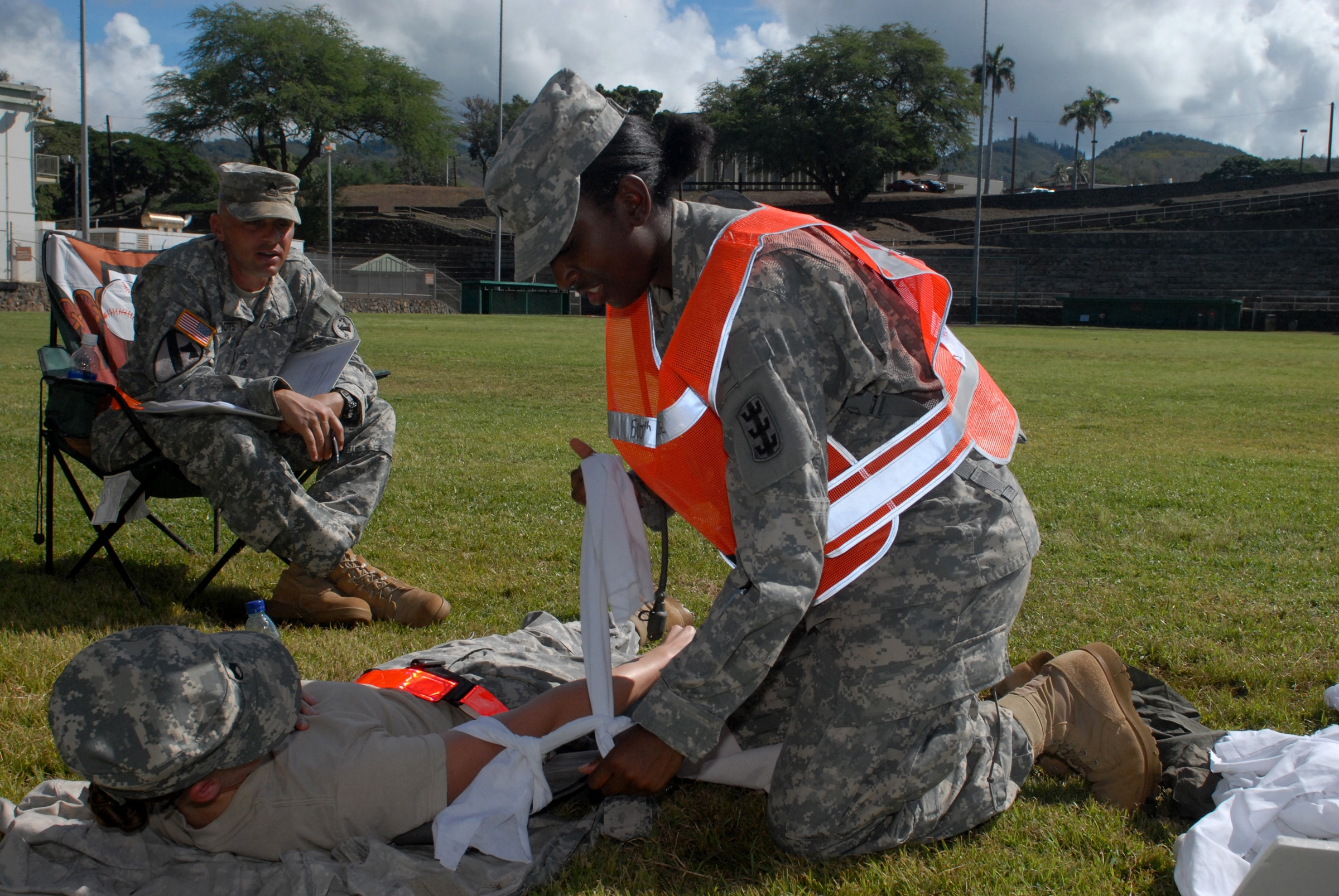 FORT SHAFTER, Hawaii - Private Laqwen Collette, a paralegal from the 130th Engineer Brigade, conducts first aid during the Warrior Task Training portion of the Paralegal Challenge. (photo by Staff Sgt. Crista Yazzie, USARPAC Public Affairs)